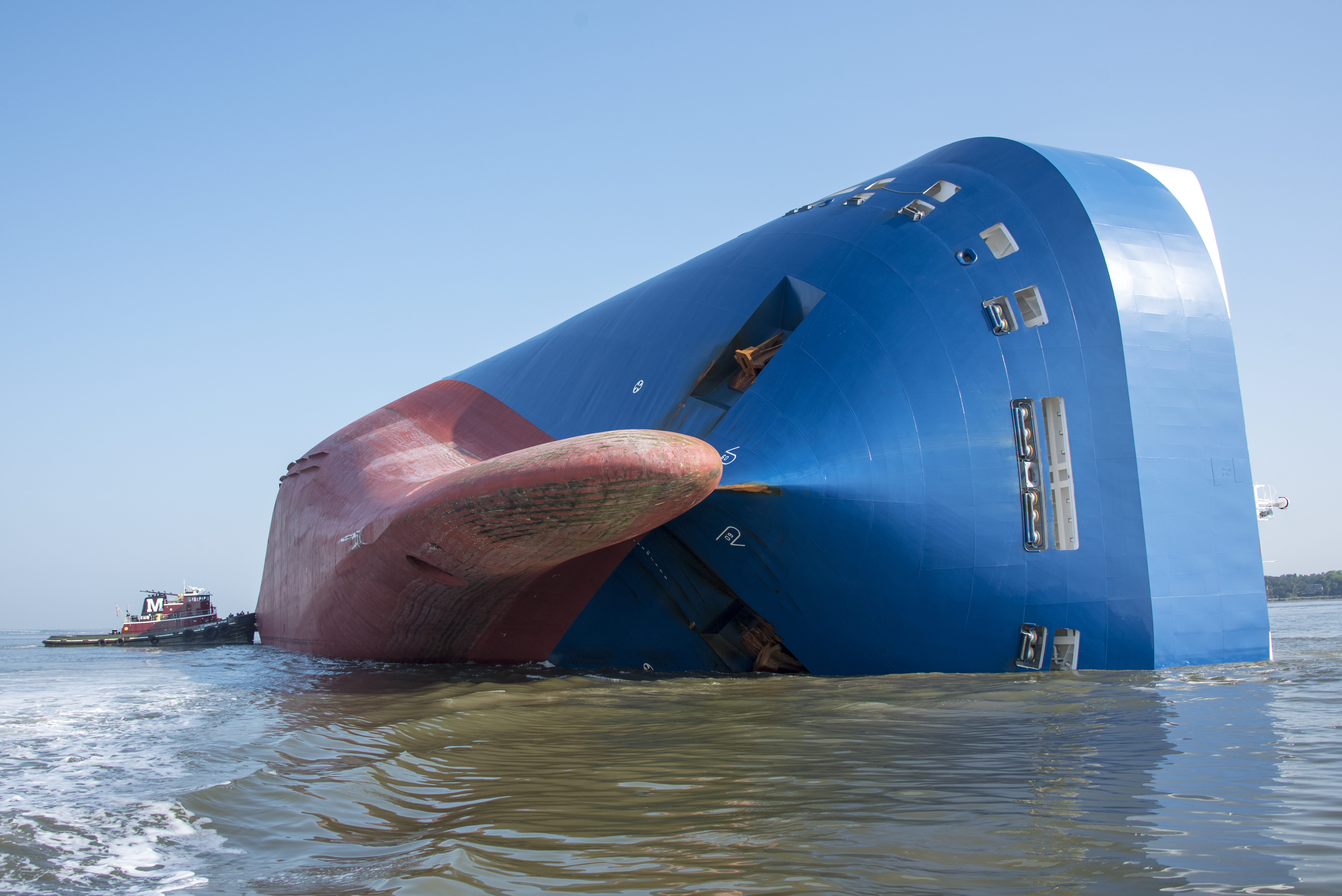 Coast Guard and rescue crews, along with port partners, attempt to locate and rescue the remaining four crewmembers aboard the 656-foot vehicle carrier Golden Ray, Sept. 9, 2019, in St. Simons Sound, near Brunswick, Georgia. A Coast Guard Air Station Savannah MH-65 Dolphin helicopter aircrew, Station Brunswick boat crews and other port partners rescued 20 people the morning of Sept. 8, after it was reported the vessel was disabled and listing.